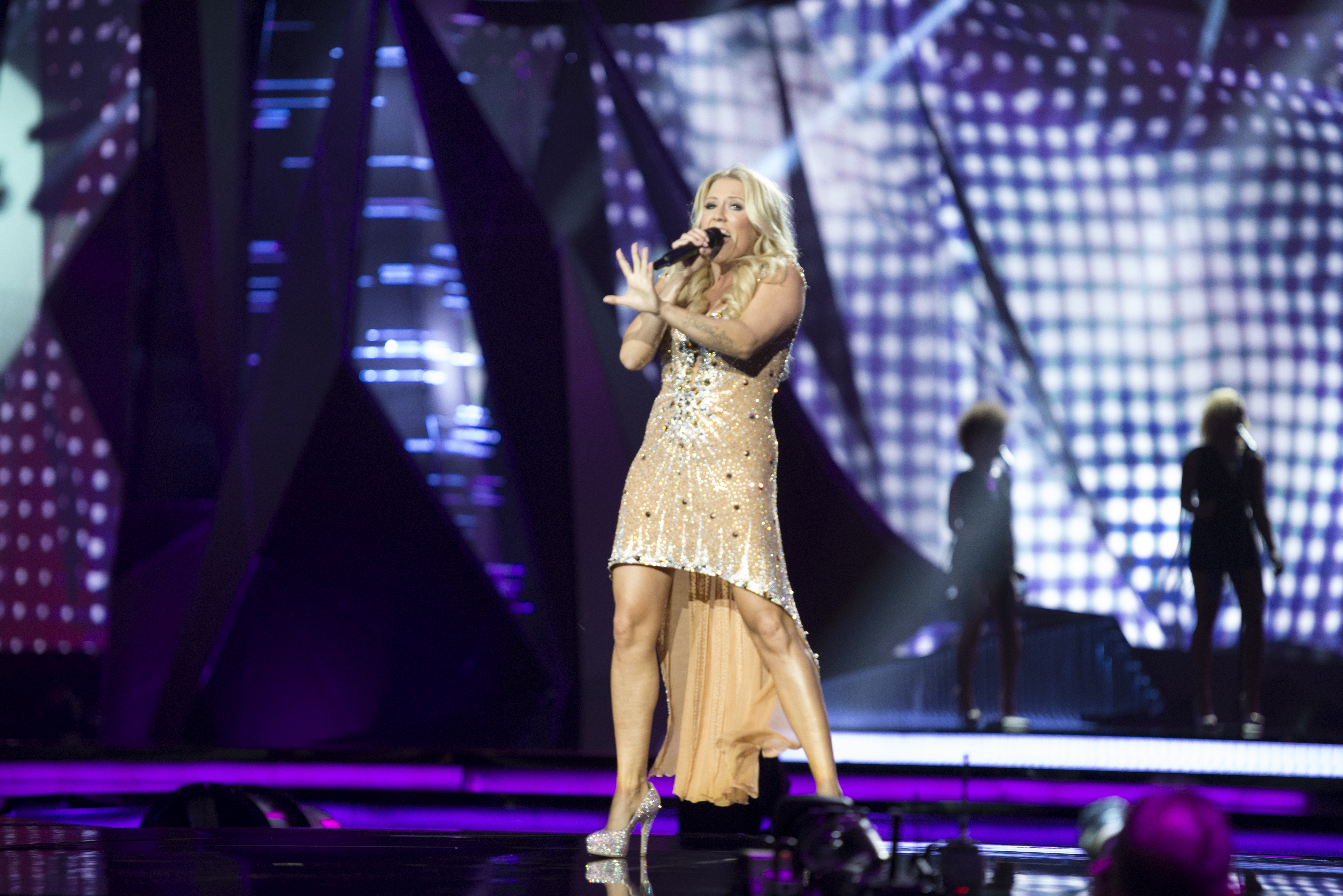 Natalie Horler from Cascada representing Germany with the song "Glorious" during the first dress rehearsal for "the Big Five" in the Eurovision Song Contest 2013 in Malmö. (Help translate this text)